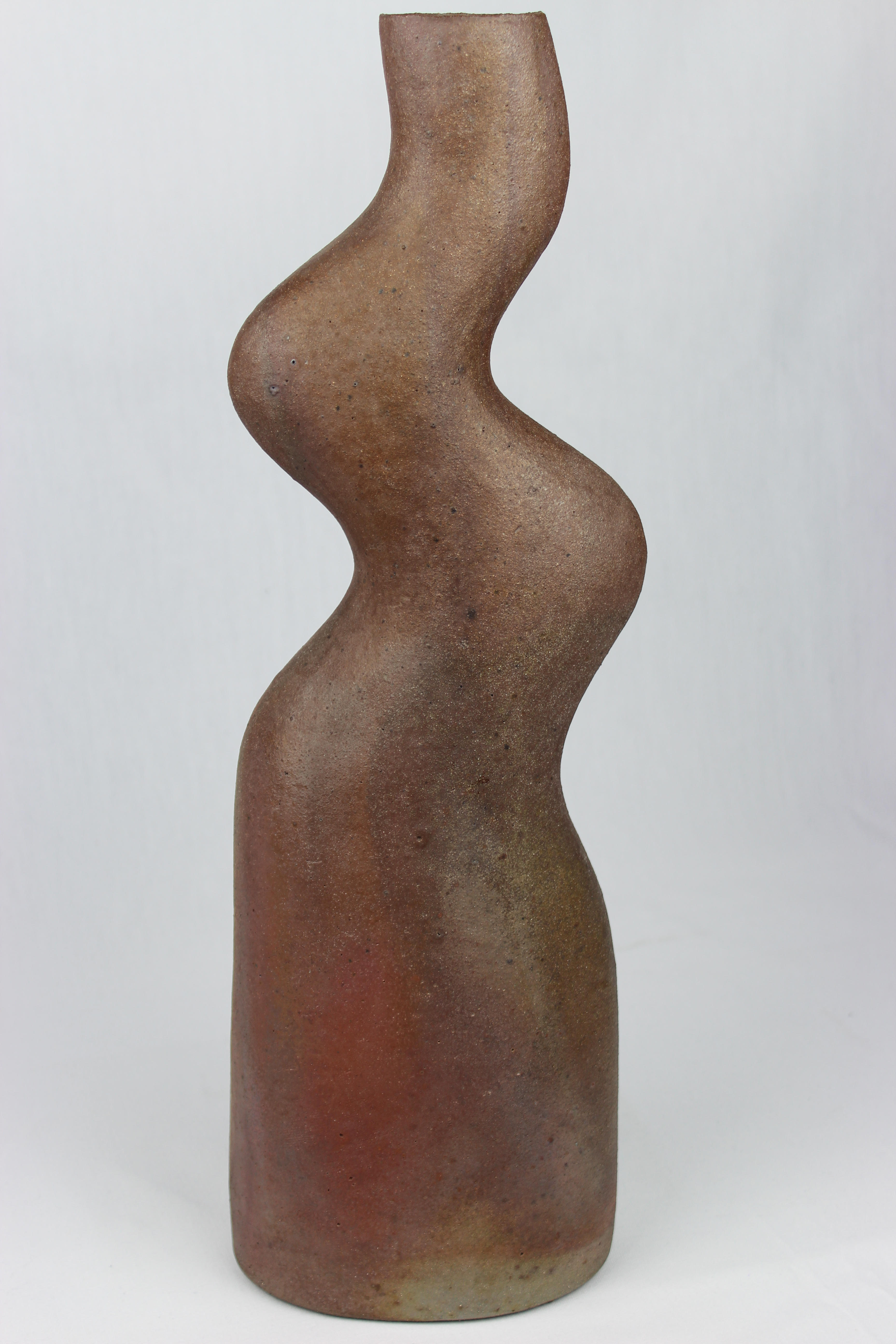 Tall wavy vase with red/brown glaze, irridescent in patches. From the W.A. Ismay Studio Ceramics Collection at York Art Gallery